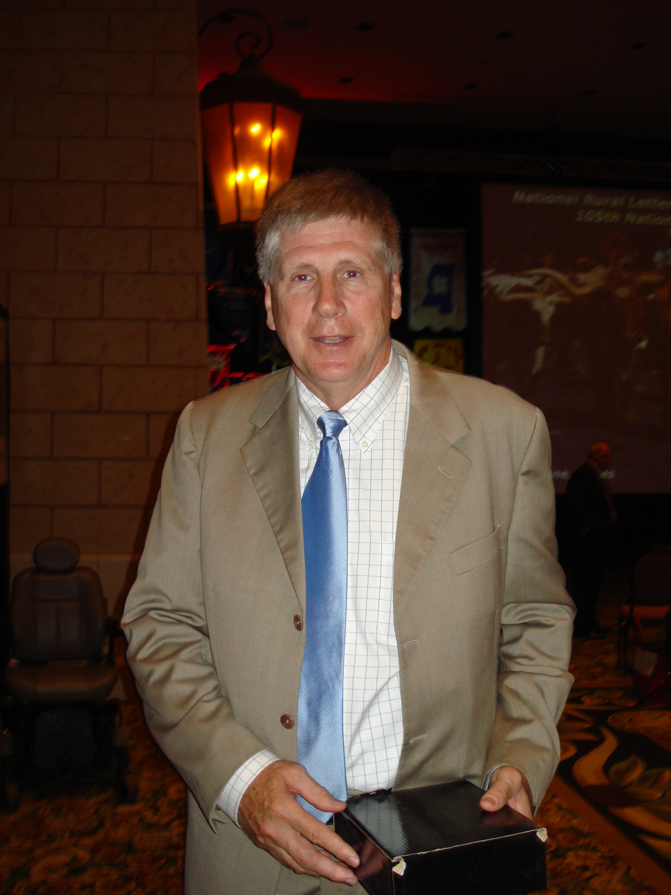 Congressman Larry Kissell